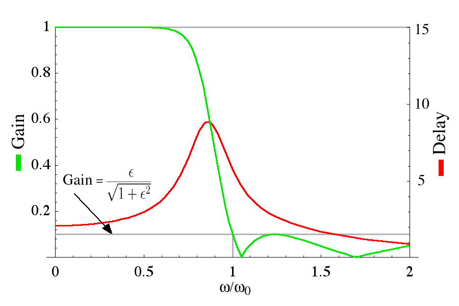 Gain (green) and group delay (red) of a 5th order Chebyshev type II electronic filter with ε=0.1.